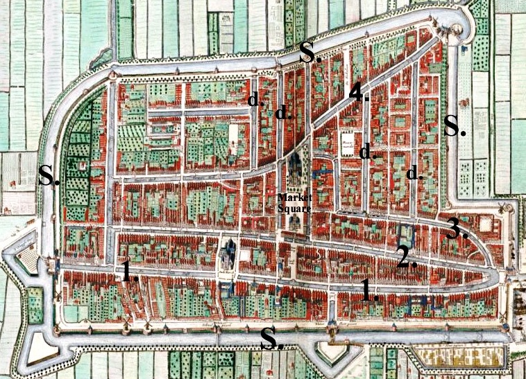 An adaption of the historical map of Blaeu of Delft. The canals are numbered to be used in the article "Gracht" about city-canals. The historical map is found in Wikimedia File: Blaeu 1652 - Delft.jpg